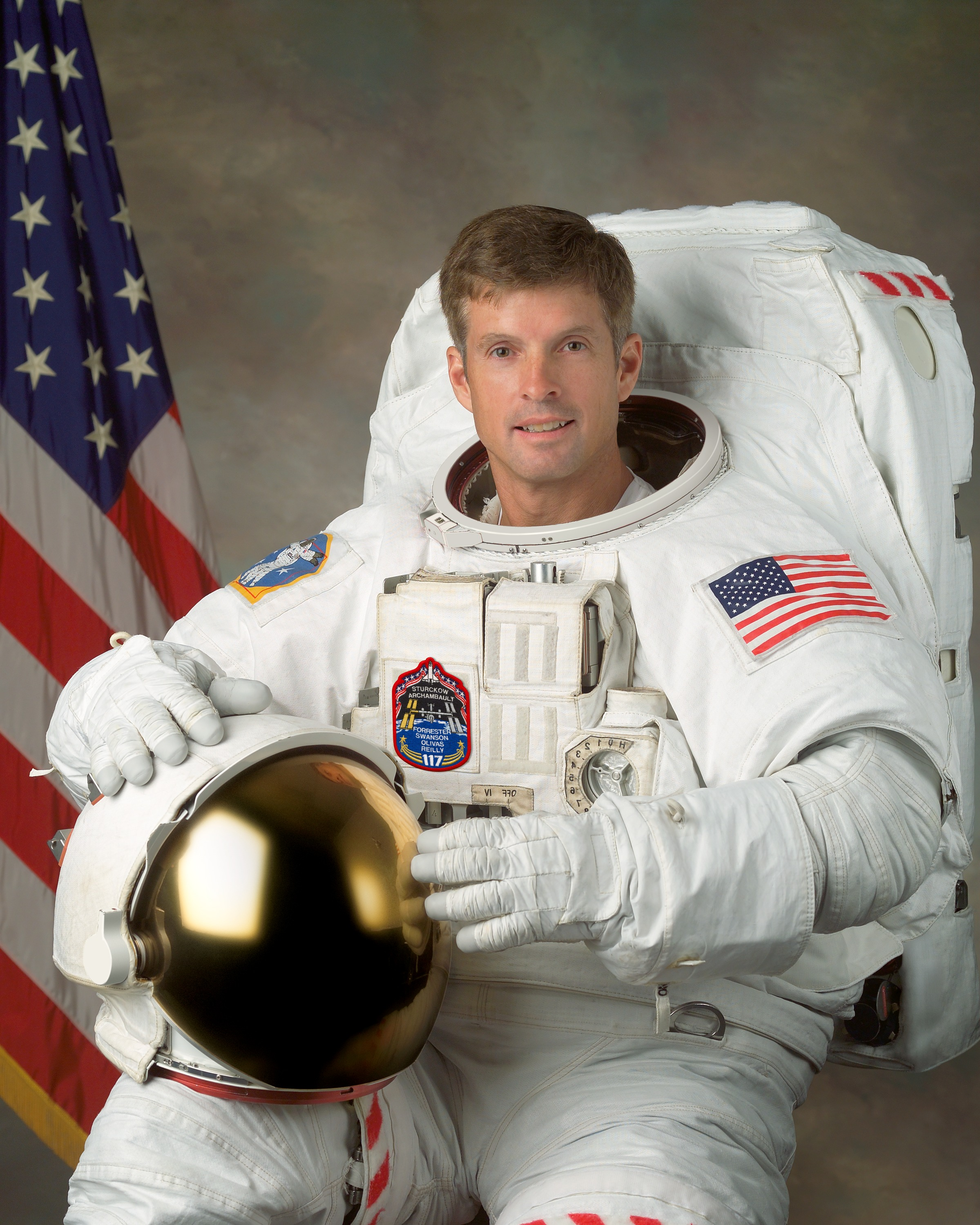 Official portrait image of NASA astronaut Steven Swanson